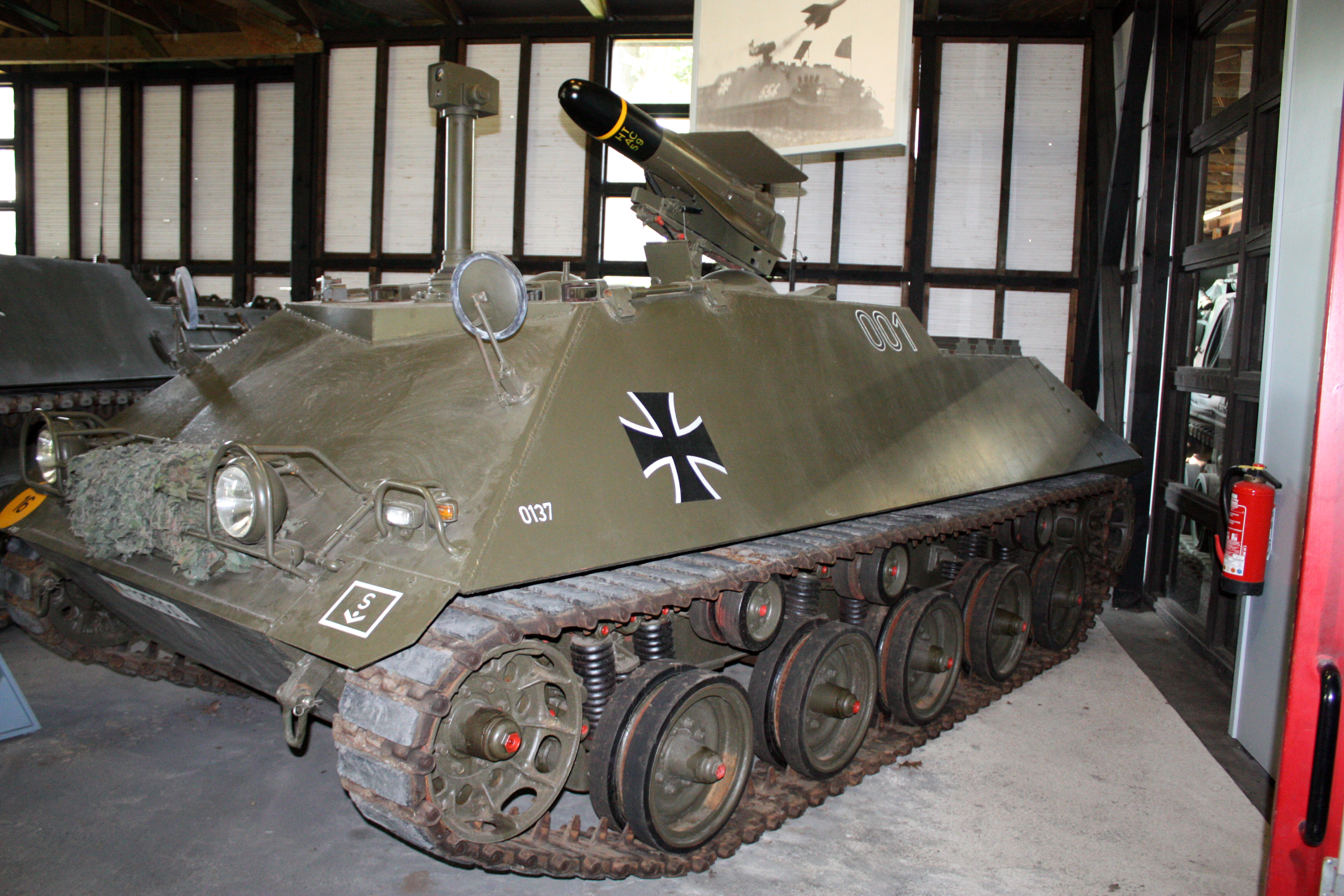 German Tank Museum